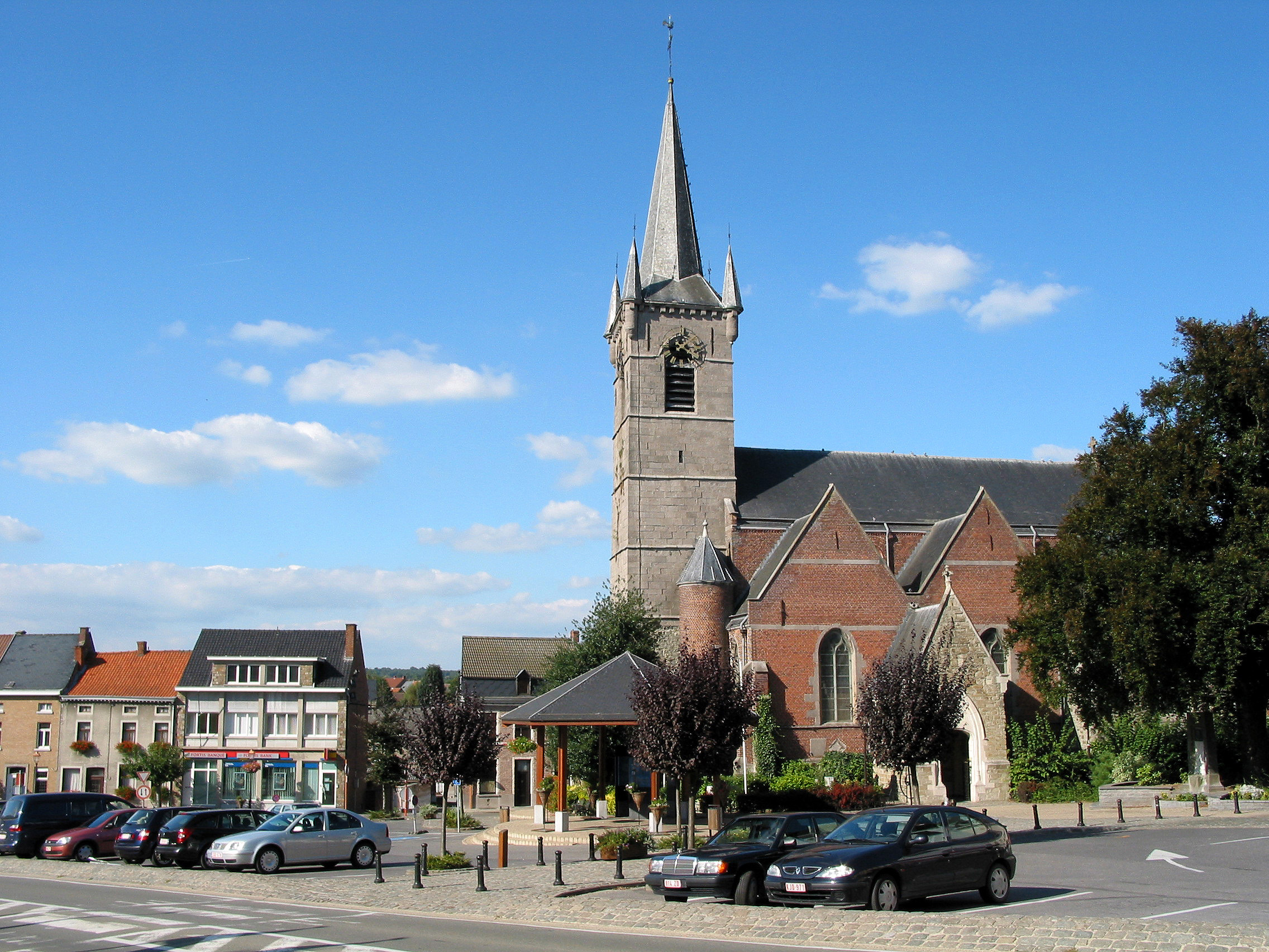 Flobecq (Belgium), St. Luke's Church (XIII/XVIth centuries).